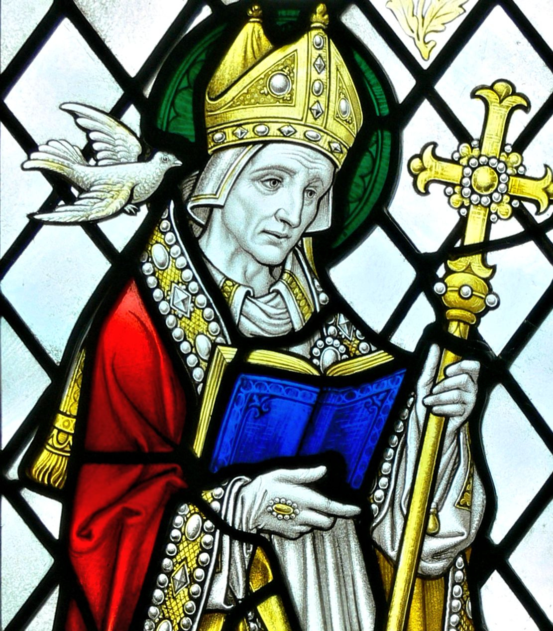 Our Lady and Saint Non's chapel ( St Davids, Wales ). Stained glass window ( 1934 ) showing Saint David.